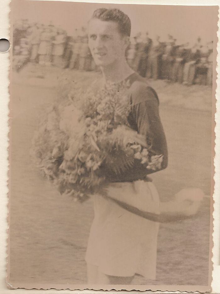 Ferdinand Růžička